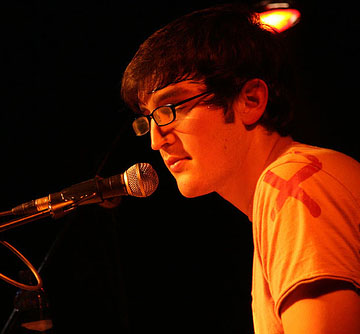 singer Jeremy Warmsley at the Night and Day Cafe, Manchester, in 2006